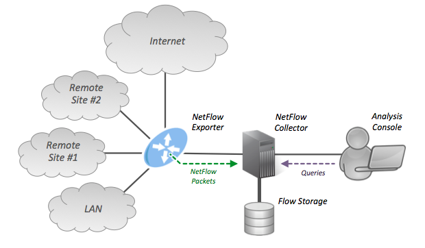 Overview of NetFlow Data Export process including exporter, collector, storage, and analysis workstation.